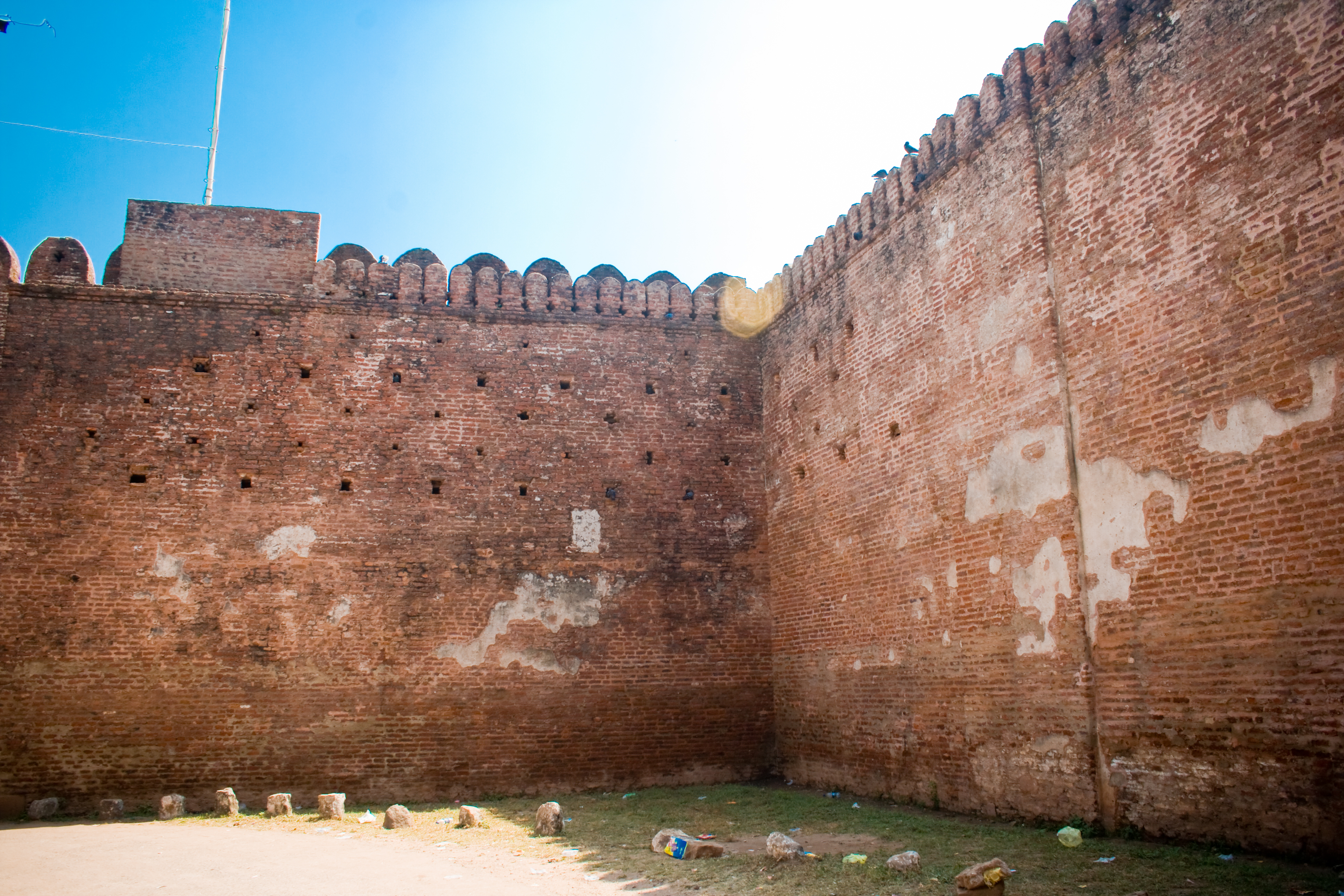 high brick fortifications walls